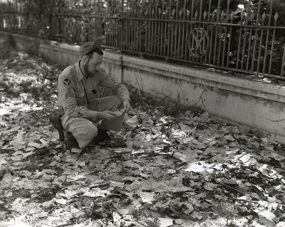 "Photographer Kneels on a Street Littered with Japanese Invasion Money, Rangoon, 1945"